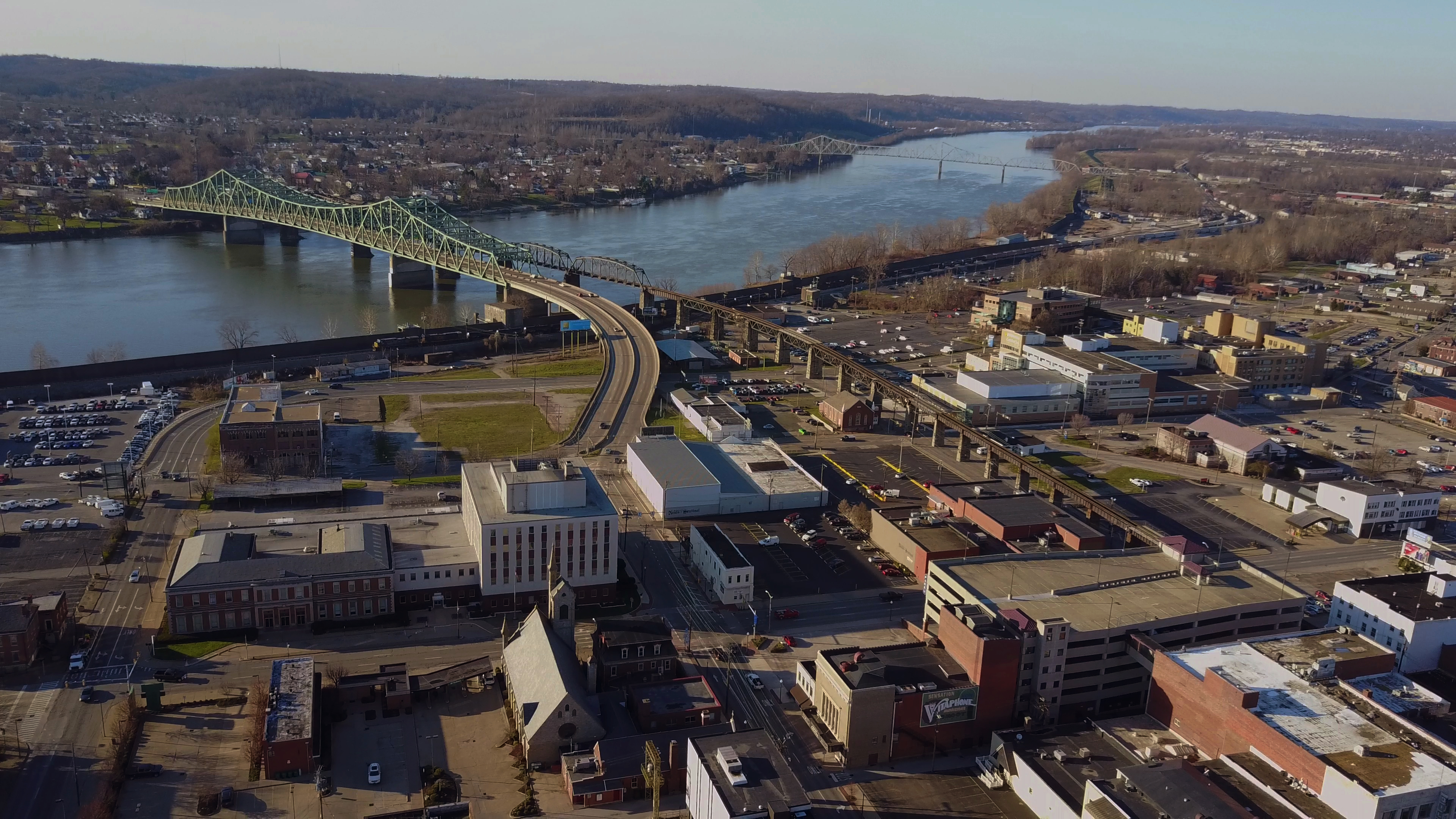 Bridges are dope